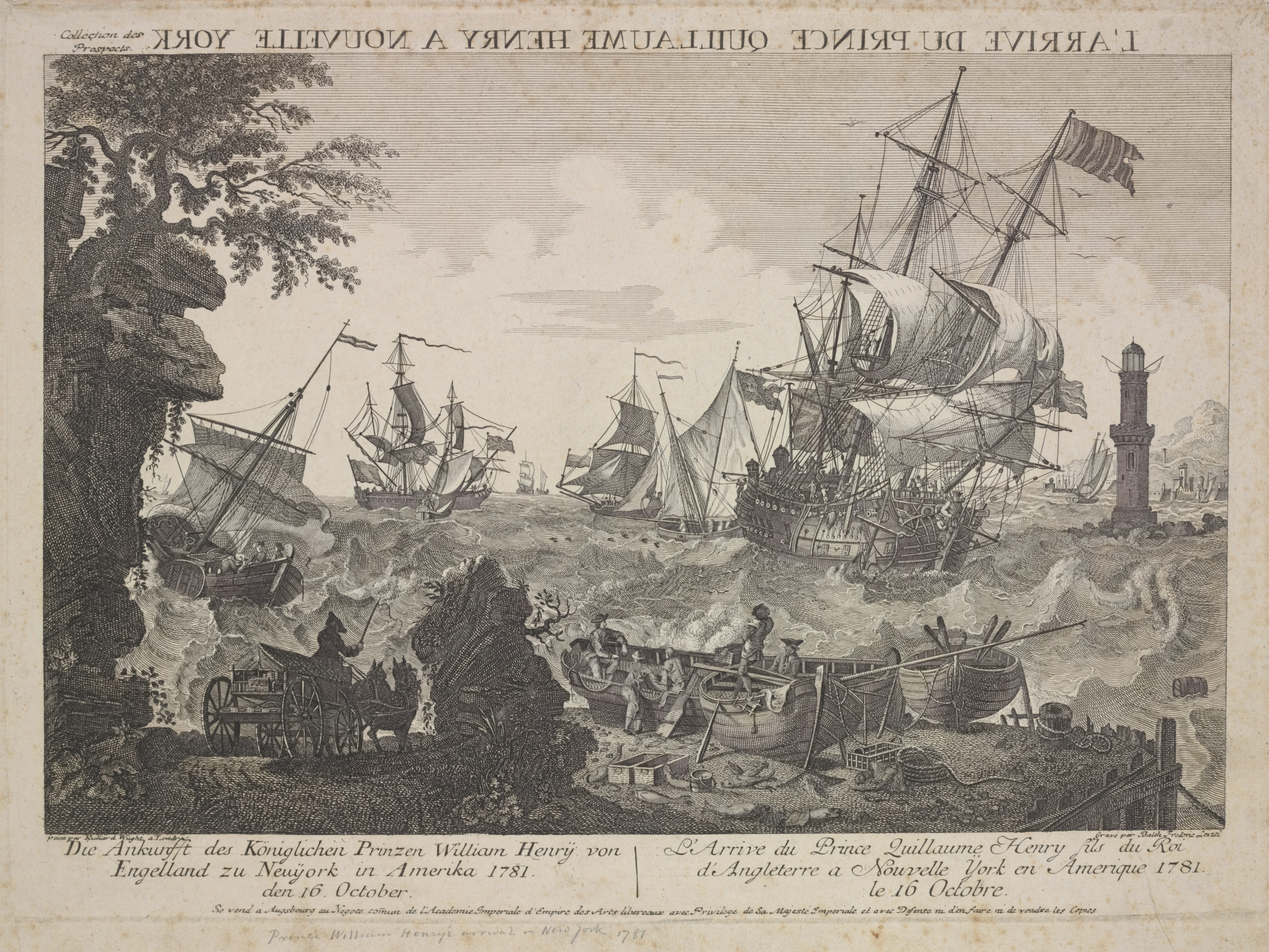 L'Arrive du Prince Guillaume Henry a Nouvelle York. The Eno collection of New York City views. The Miriam and Ira D. Wallach Division of Art, Prints and Photographs: Print Collection.